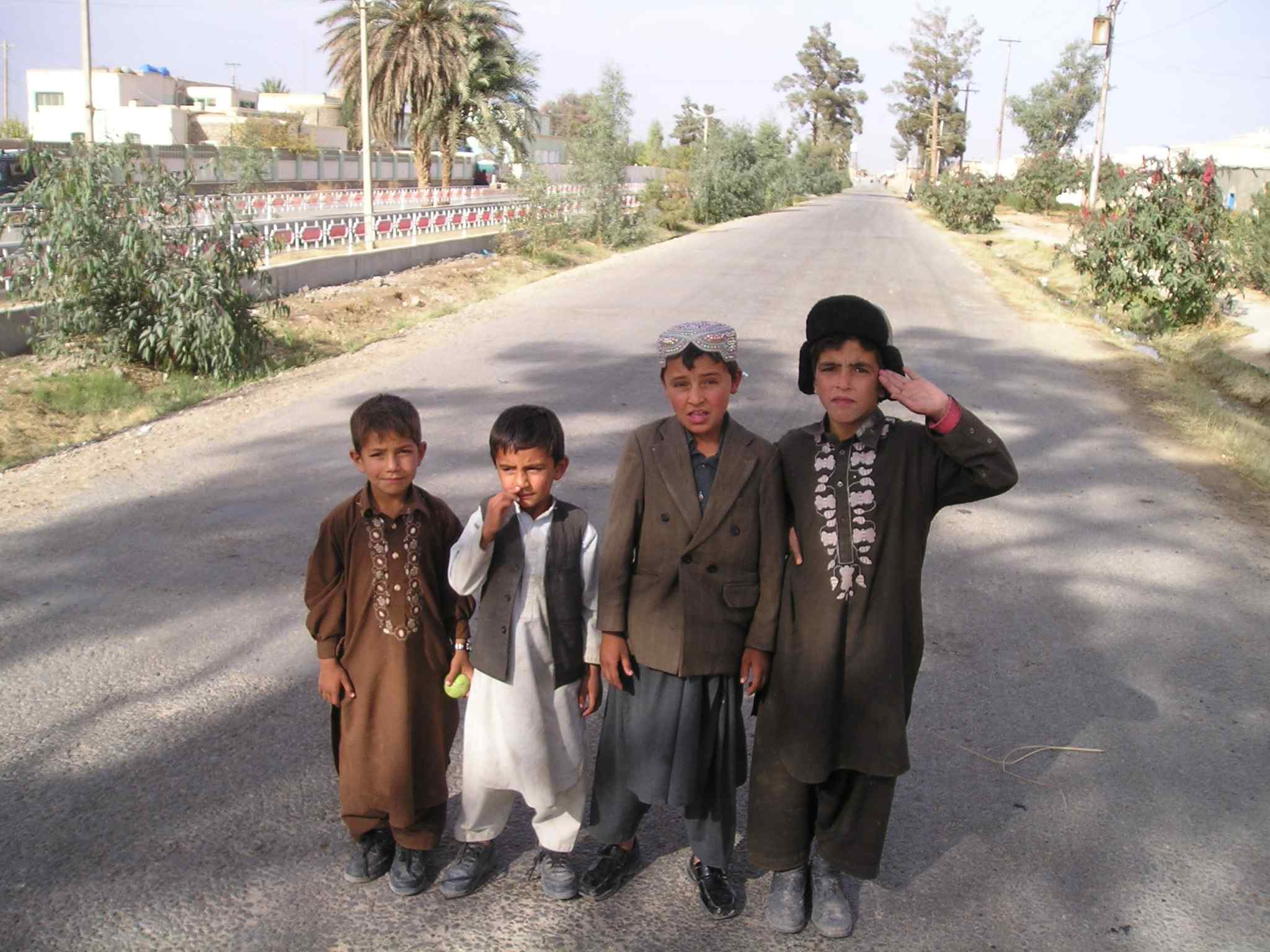 Children in Helmand Province of Afghanistan